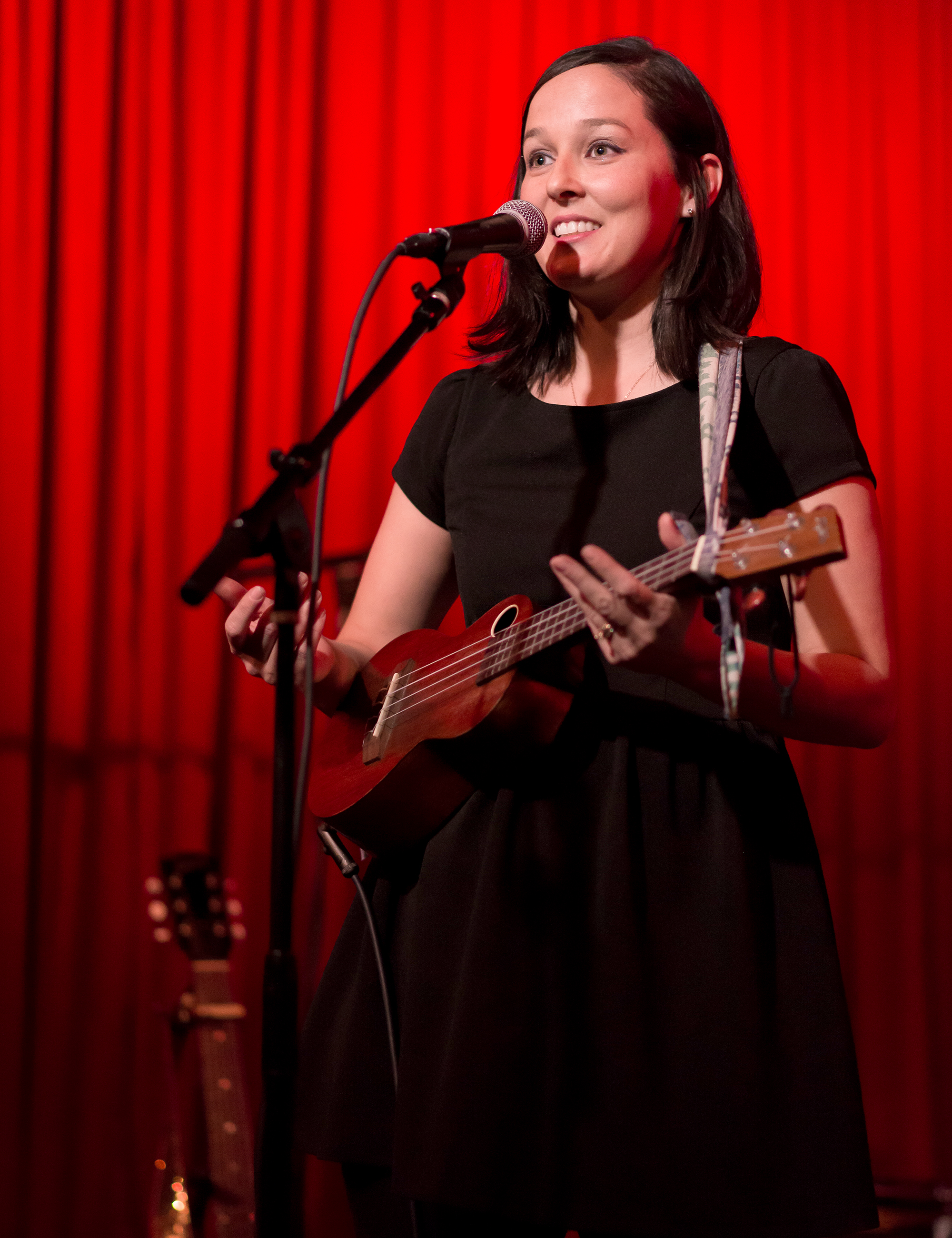 Meiko performing live at the Hotel Cafe in Hollywood, Los Angeles, California, on Saturday, January 13, 2018.